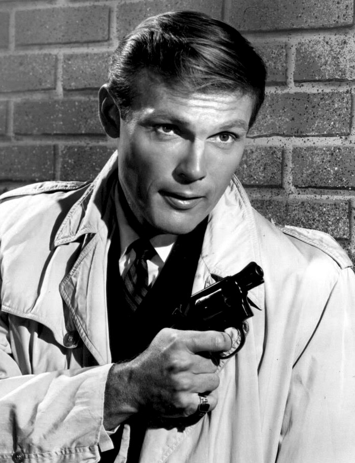 Photo of Adam West as Steve Nelson from the television program Robert Taylor's Detectives.